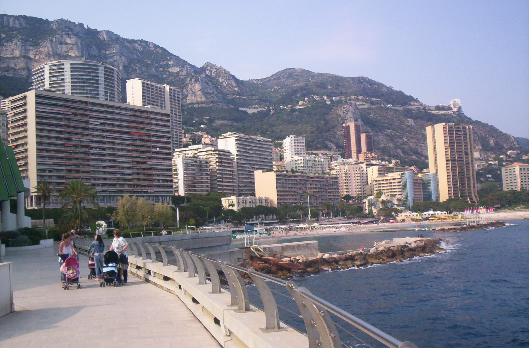 View of Monaco